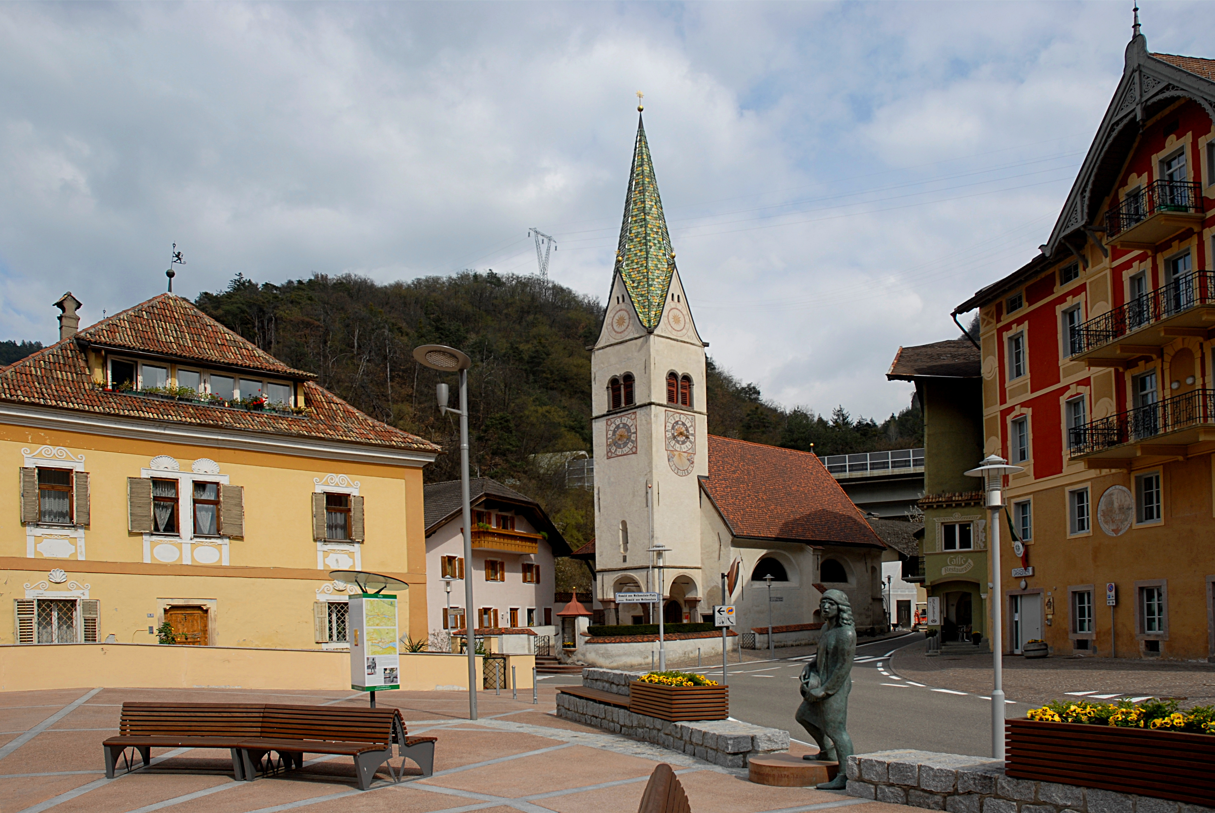 Waidbruck (Ponte Gardena), in the center on the Oswald of Wolkenstein square, South Tyrol, on the left the Gering house